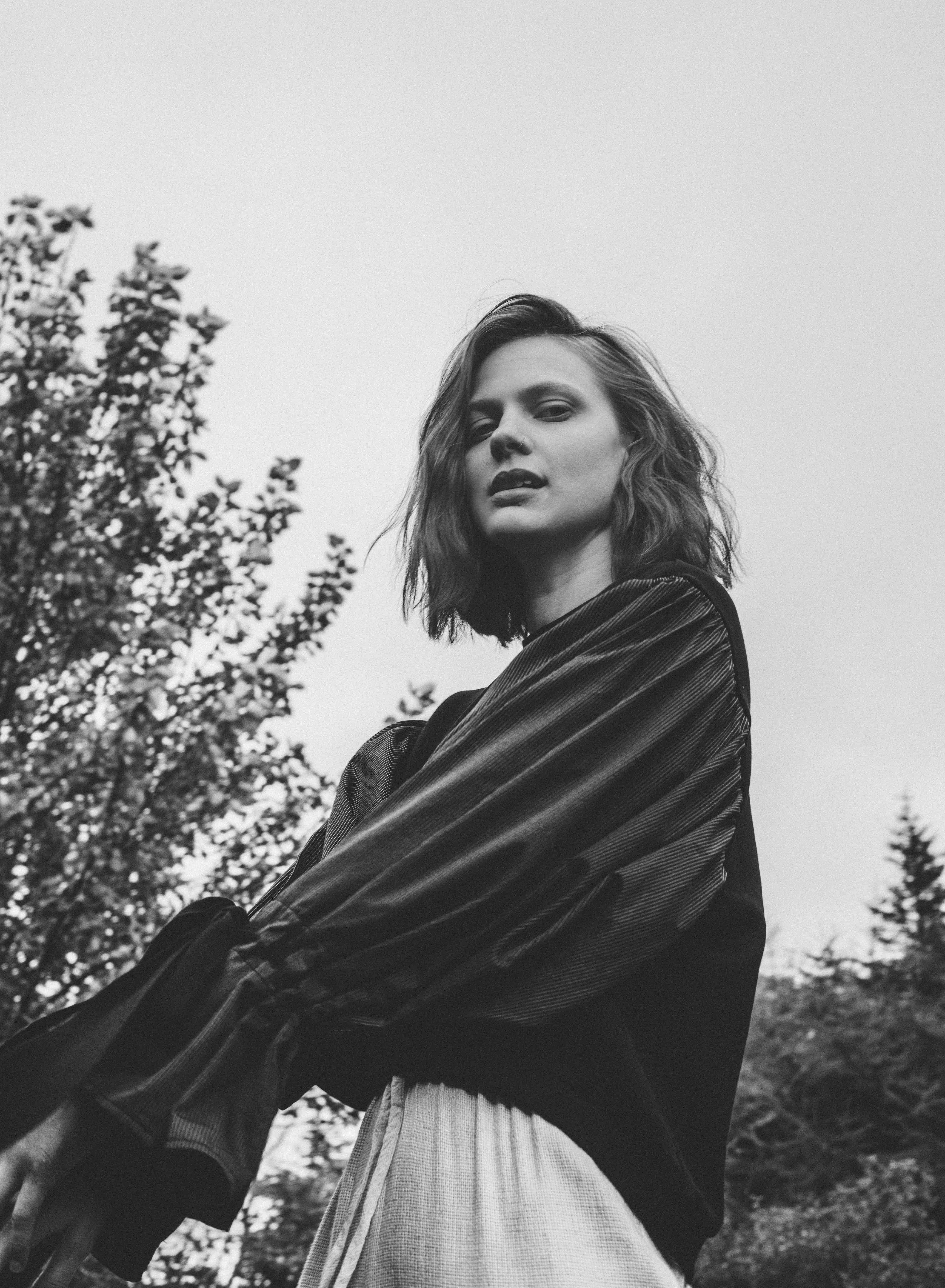 Greta Svabo Bech, photograph by Beinta á Torkilsheyggi